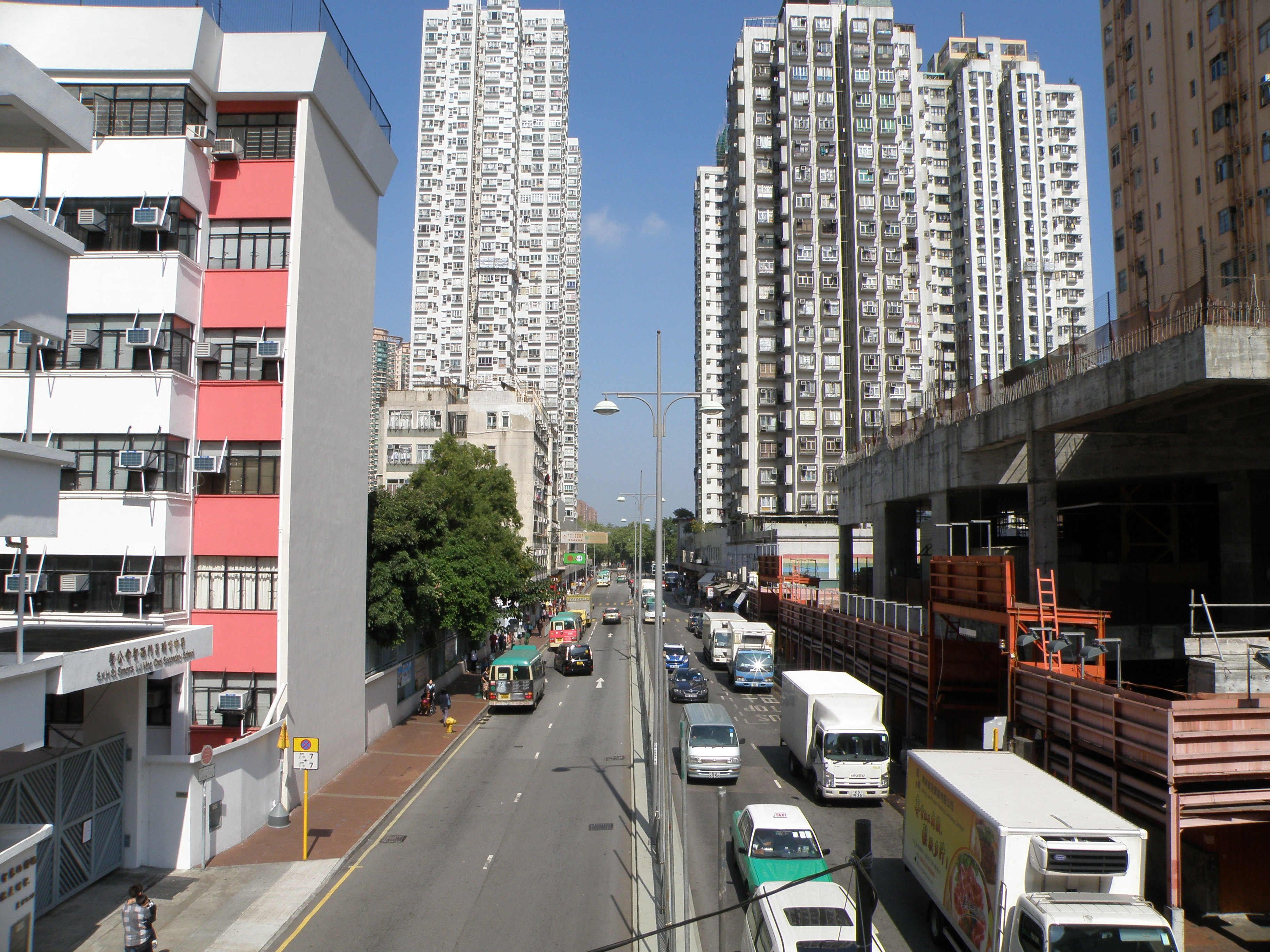 Tuen Mun Heung Sze Wui Road in Tuen Mun, Hong Kong.